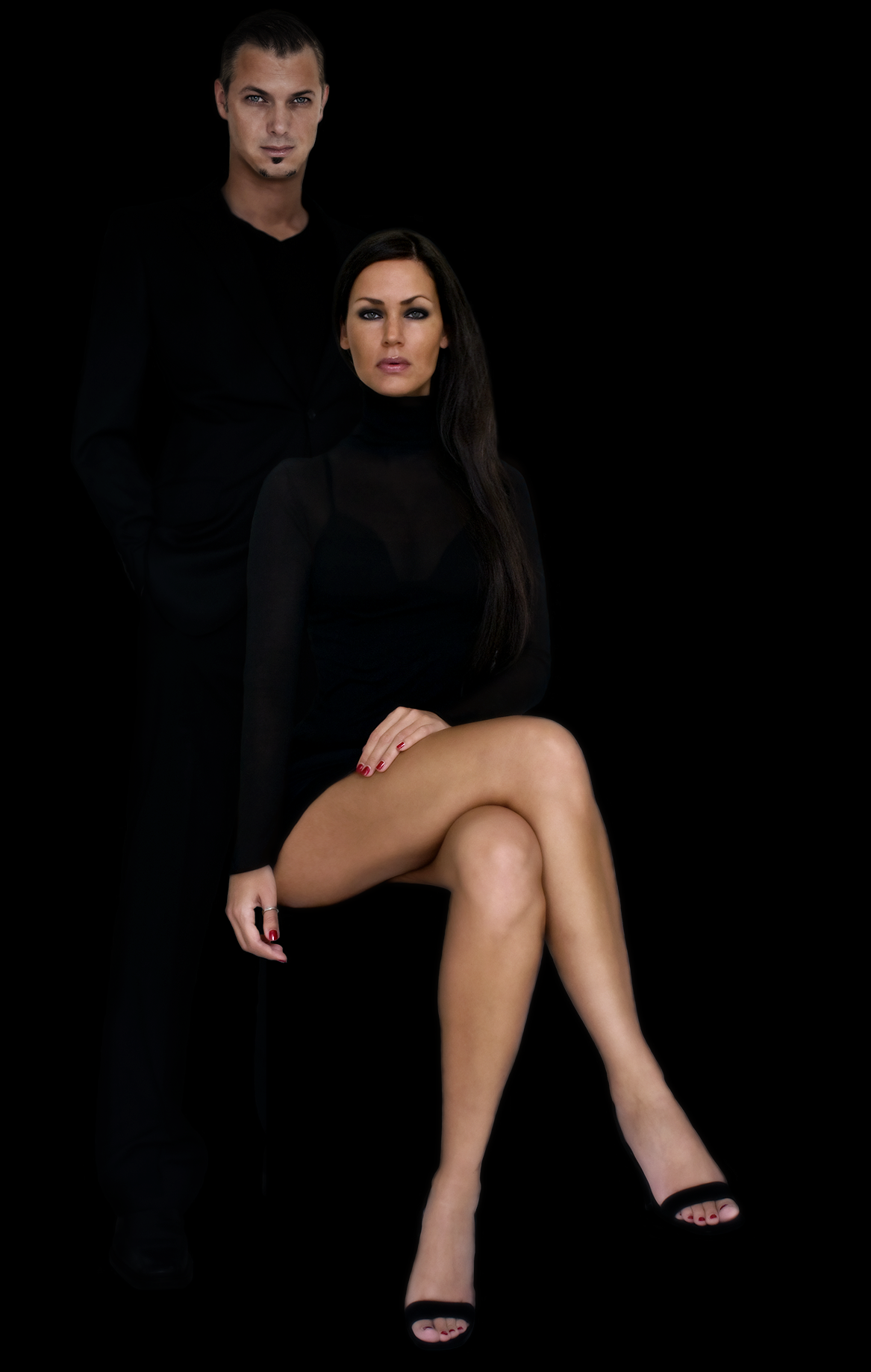 Sascha Warmenhoven (back) Babette Venderbos (front) Dutch Fashion Designers